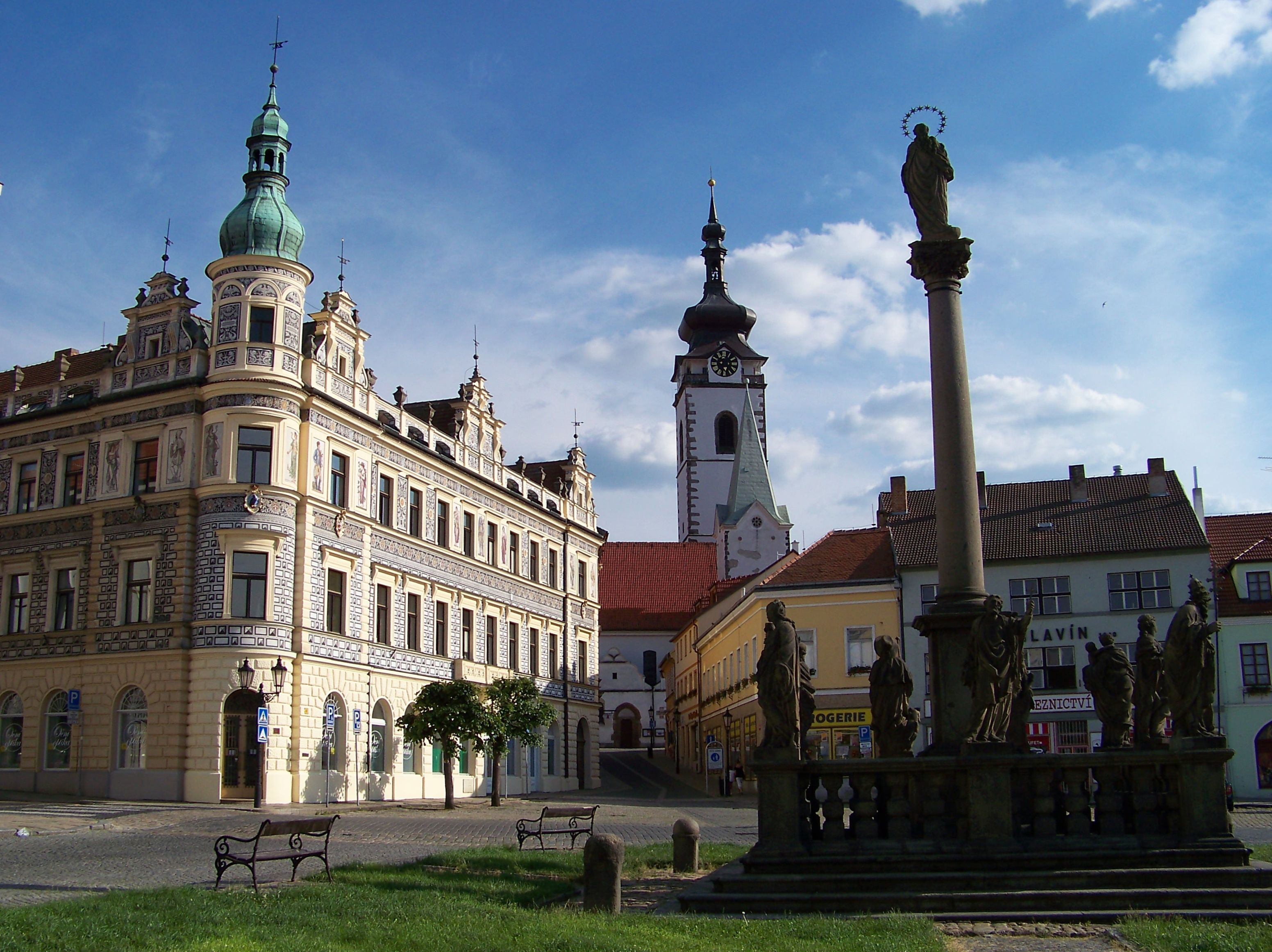 Písek-Vnitřní Město, Písek District, South Bohemian Region, the Czech Republic. Aleš Square, a view of the Maria column and Nativity Church.